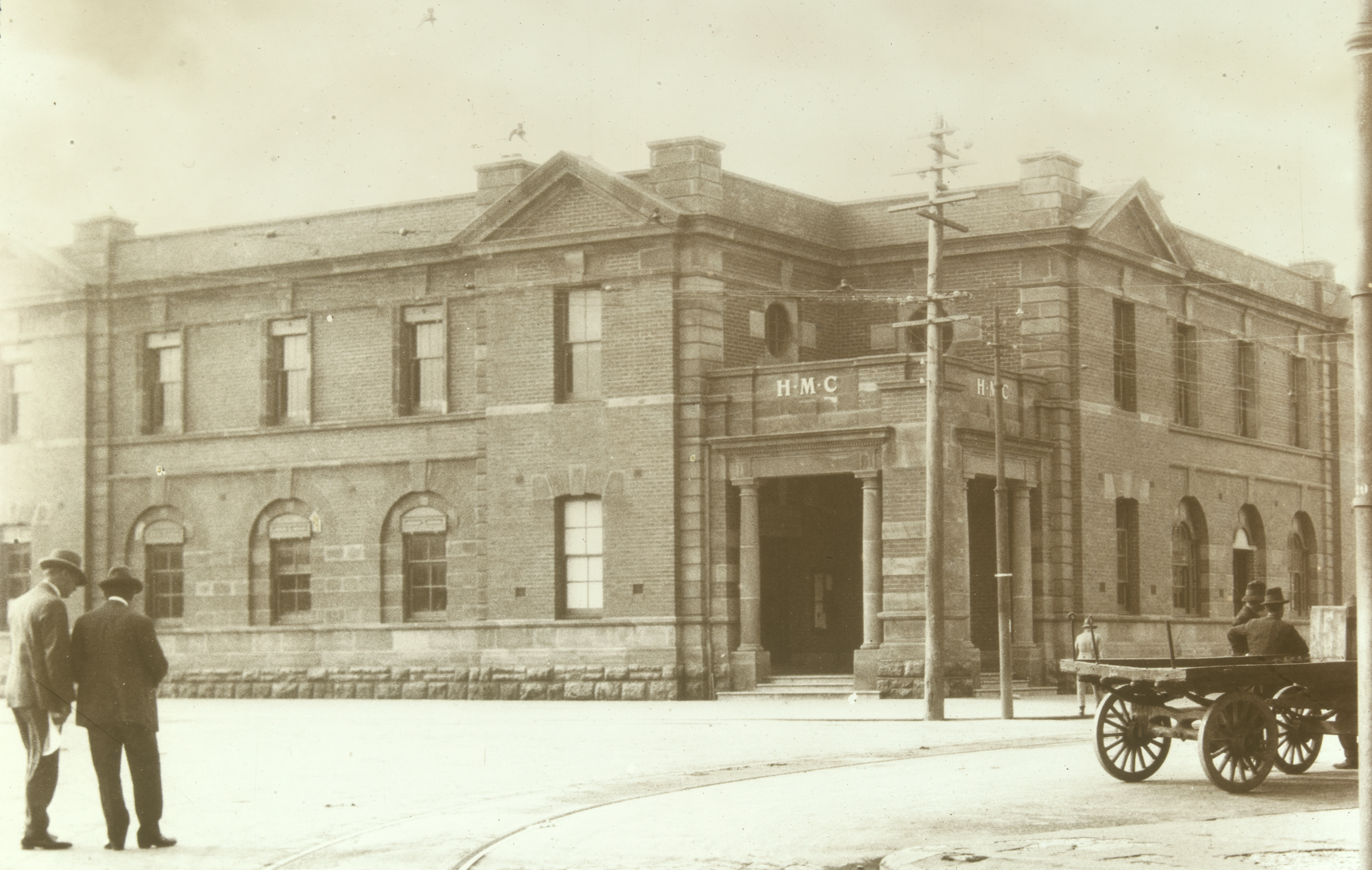 The old Customs House in Fremantle, Western Australia. Transparency: glass lantern slide, toned, 8.5 x 8.5cm.